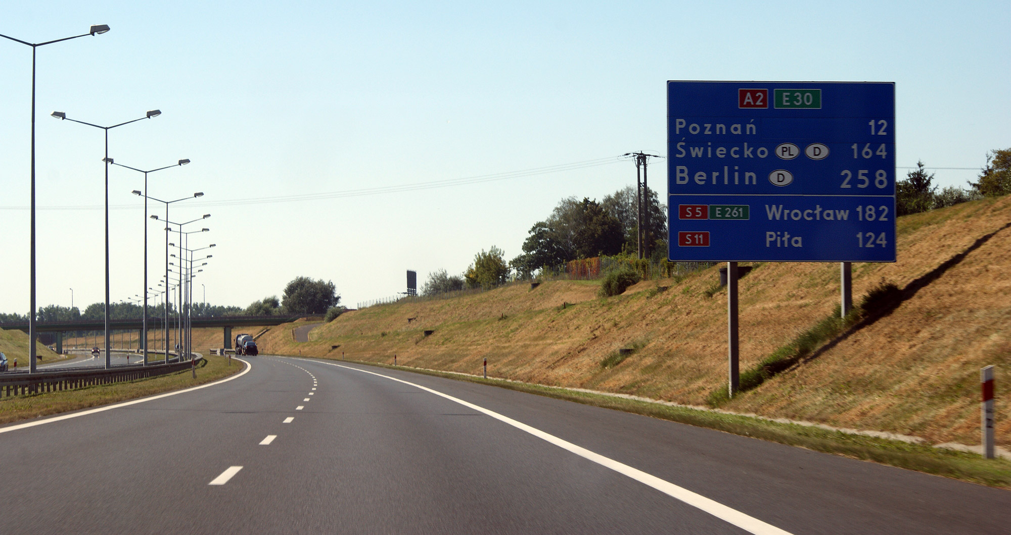 A2 highway (Poland), 3 km east of Poznań Komorniki interchange, direction of Świecko (German border).